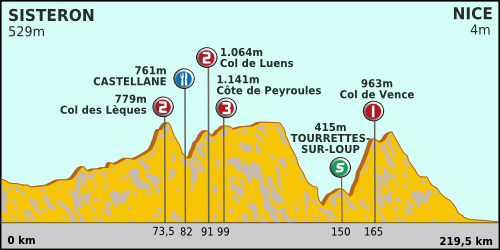 Paris-Nice 2012 Profile stage 7